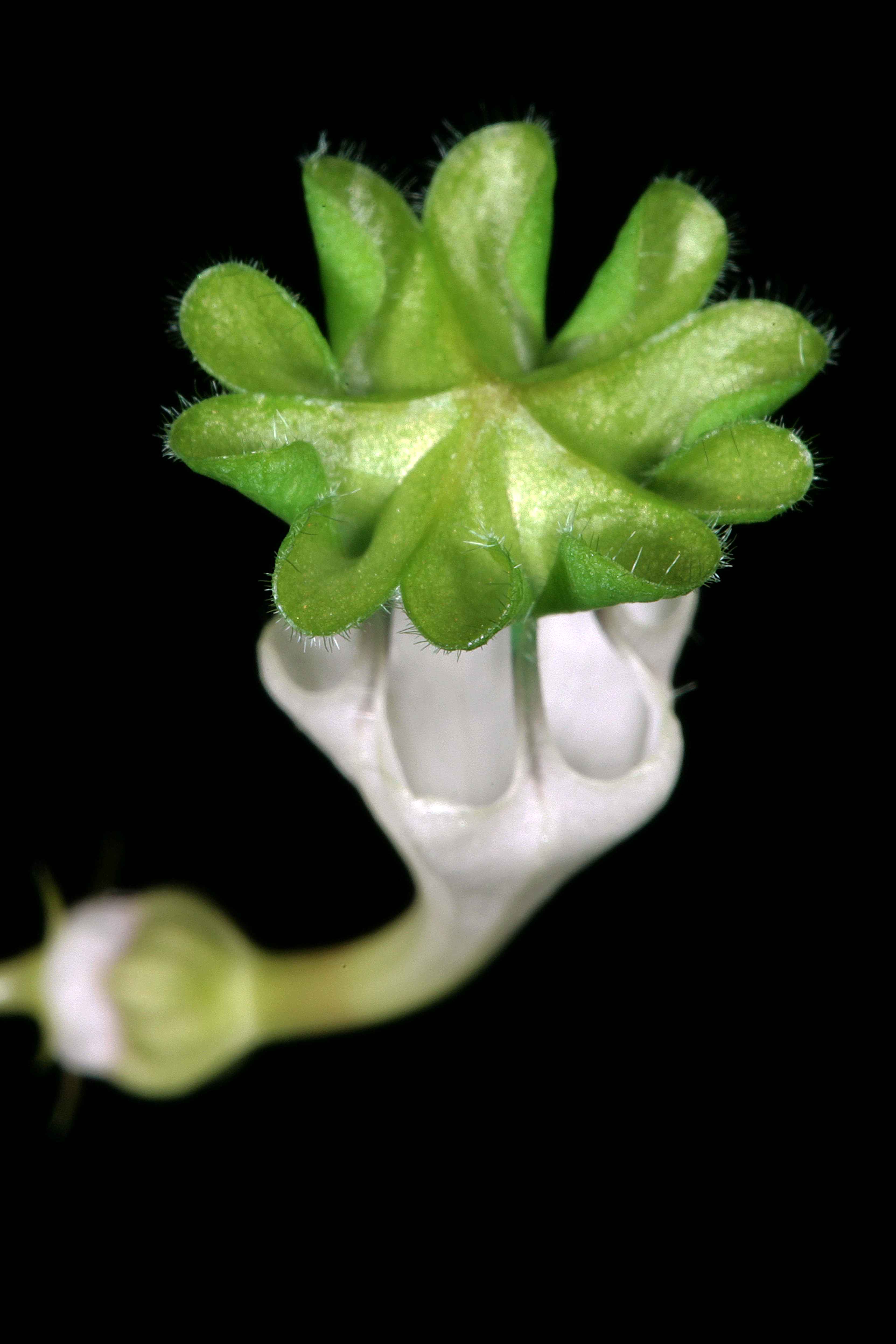 Ceropegia rendallii, flower; Manie van der Schijjf Botanical Garden, University of Pretoria, Pretoria, Gauteng, South Africa